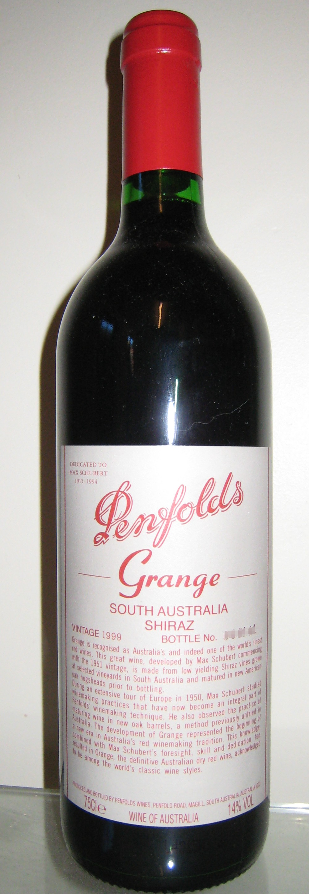 Bottle of Penfolds Grange wine